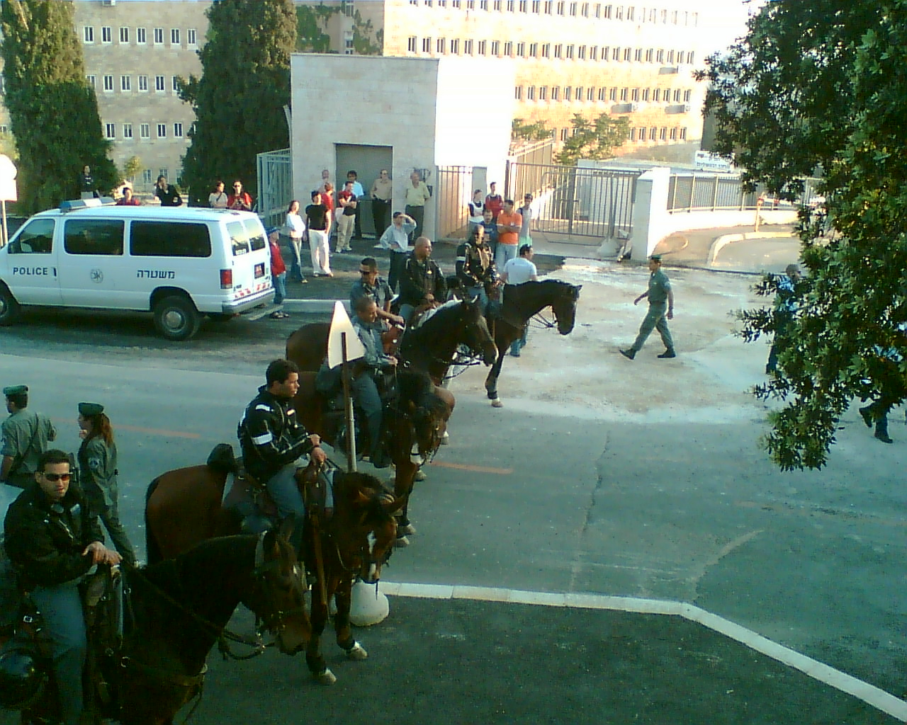 Police cavalry in Israel